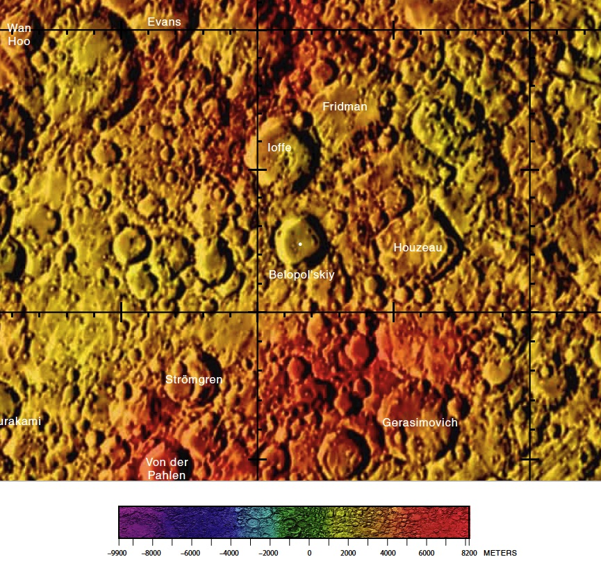 Part of the USGS far side lunar chart